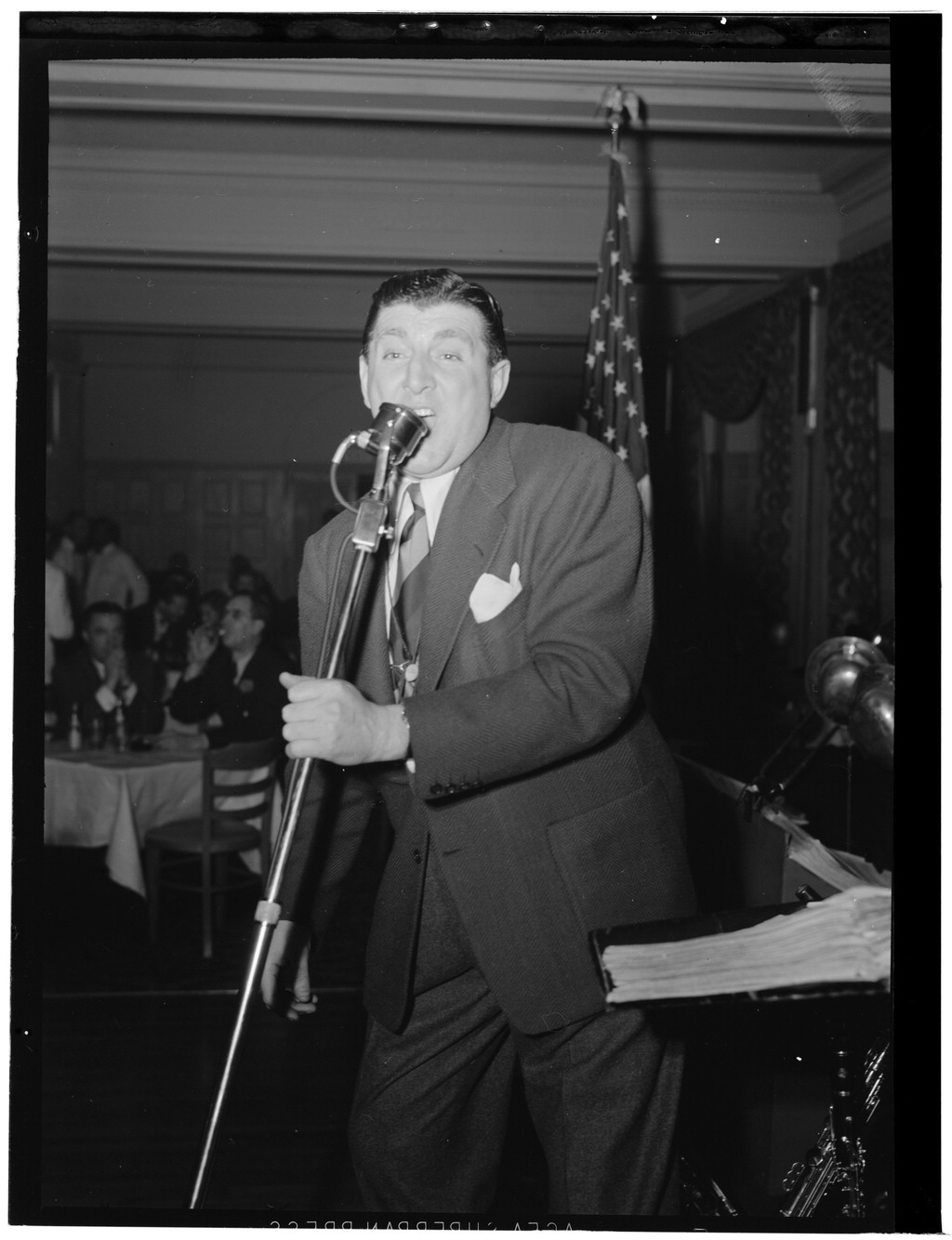 Tony Pastor, Hotel Edison, New York, N.Y., between 1946 and 1948 (Photograph by William P. Gottlieb)